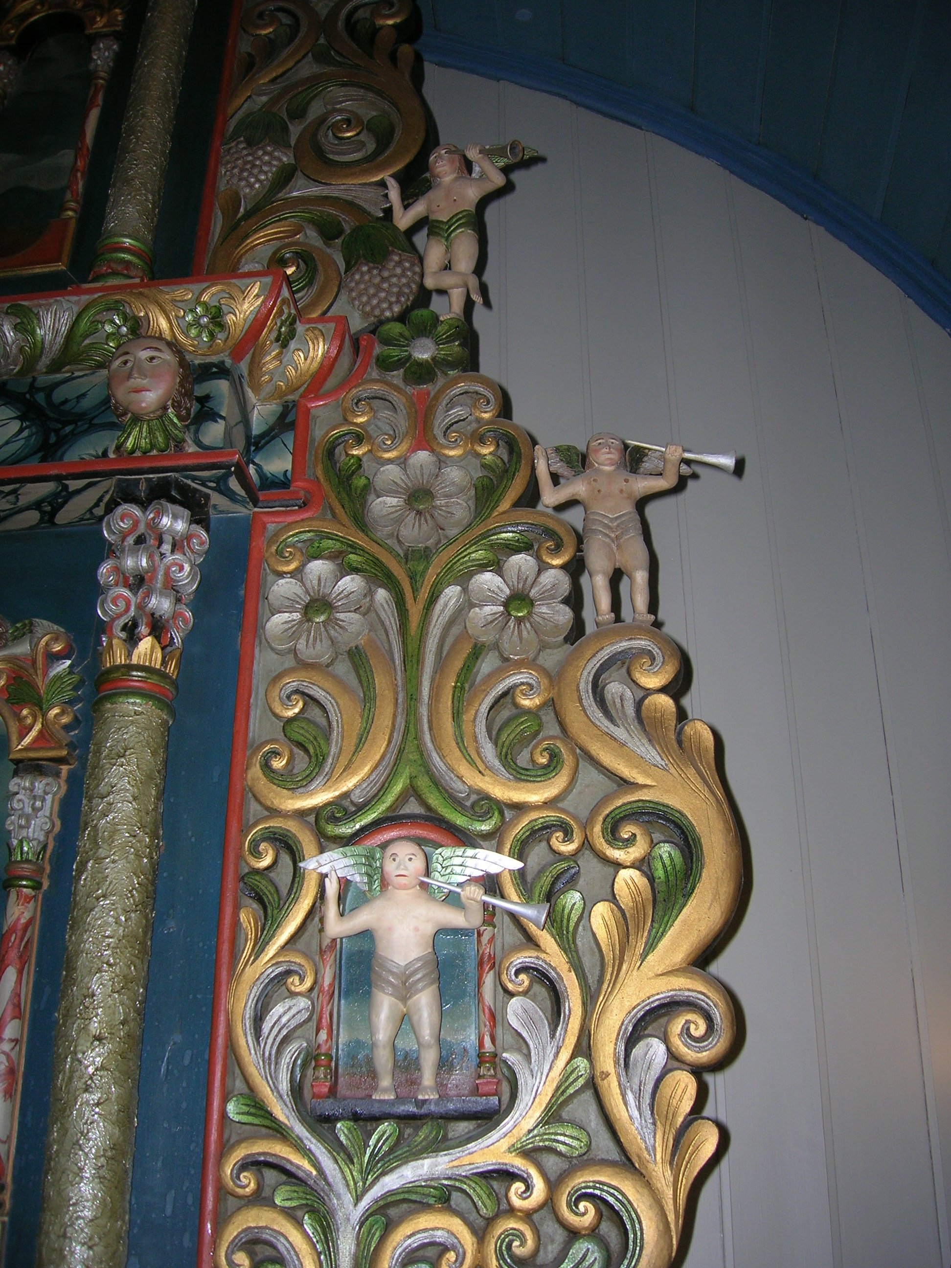 Detail on the altarpiece from 1765 in Mo church, Mo i Rana, Rana municipality, Norway. Photo on June 4, 2008 with a Nikon Coolpix 5600 5,1 Megapixel camera.